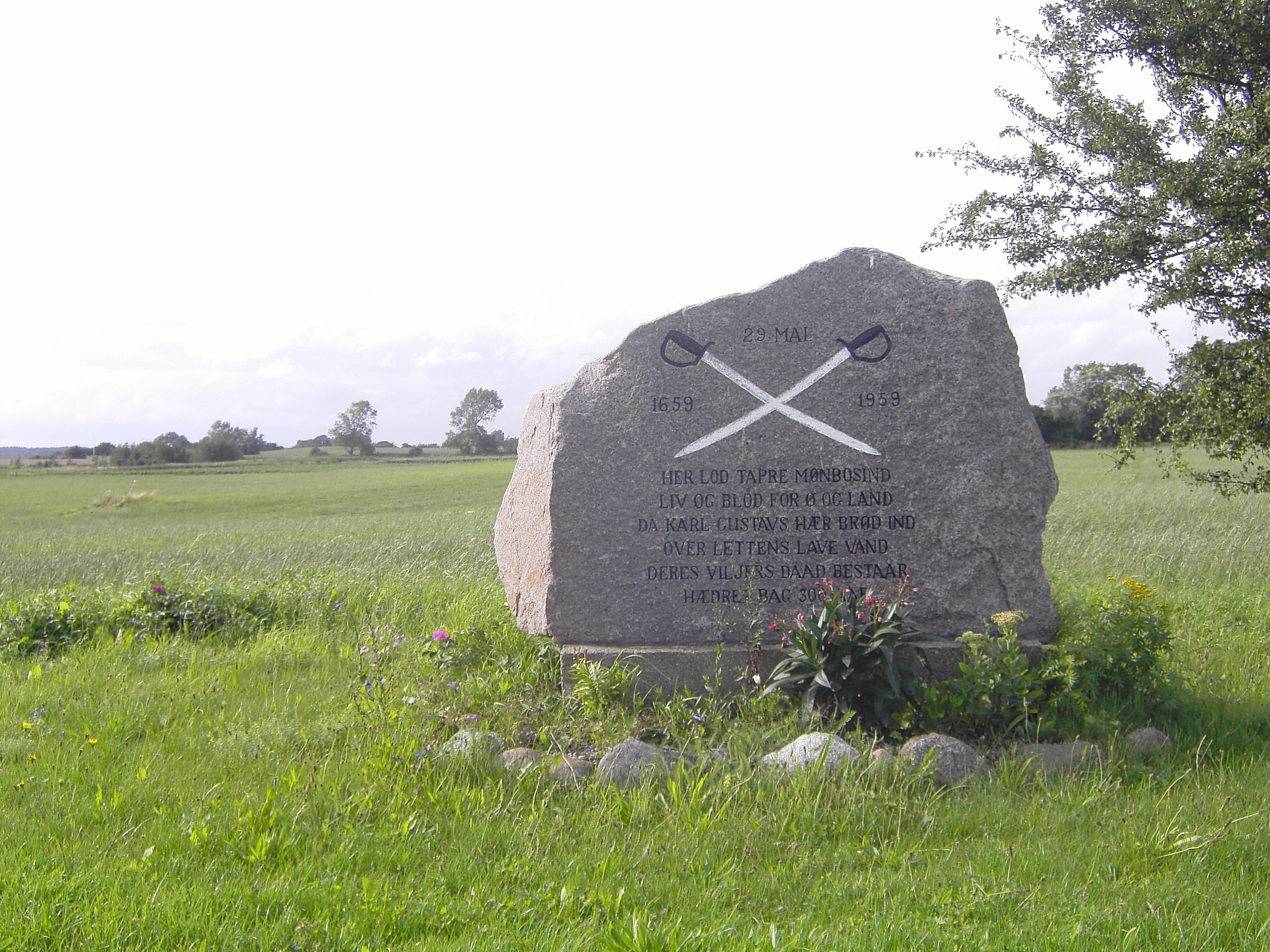 'Karl 10. Gustav af Sverige' Memorial stone, 'Battle of Møn', 'Second Northern War', 'Charles X Gustav of Sweden', 1659